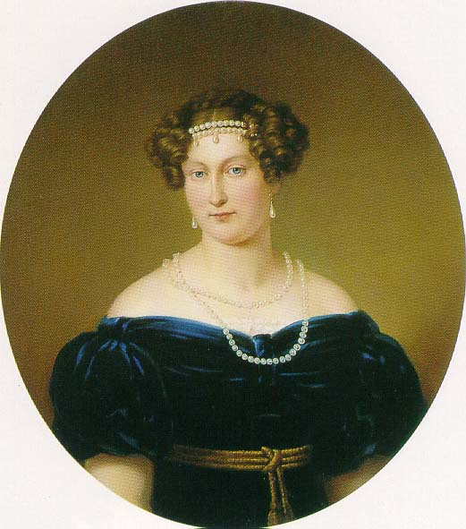 Antoinette of Saxe-Coburg-Saalfeld (1779-1824)